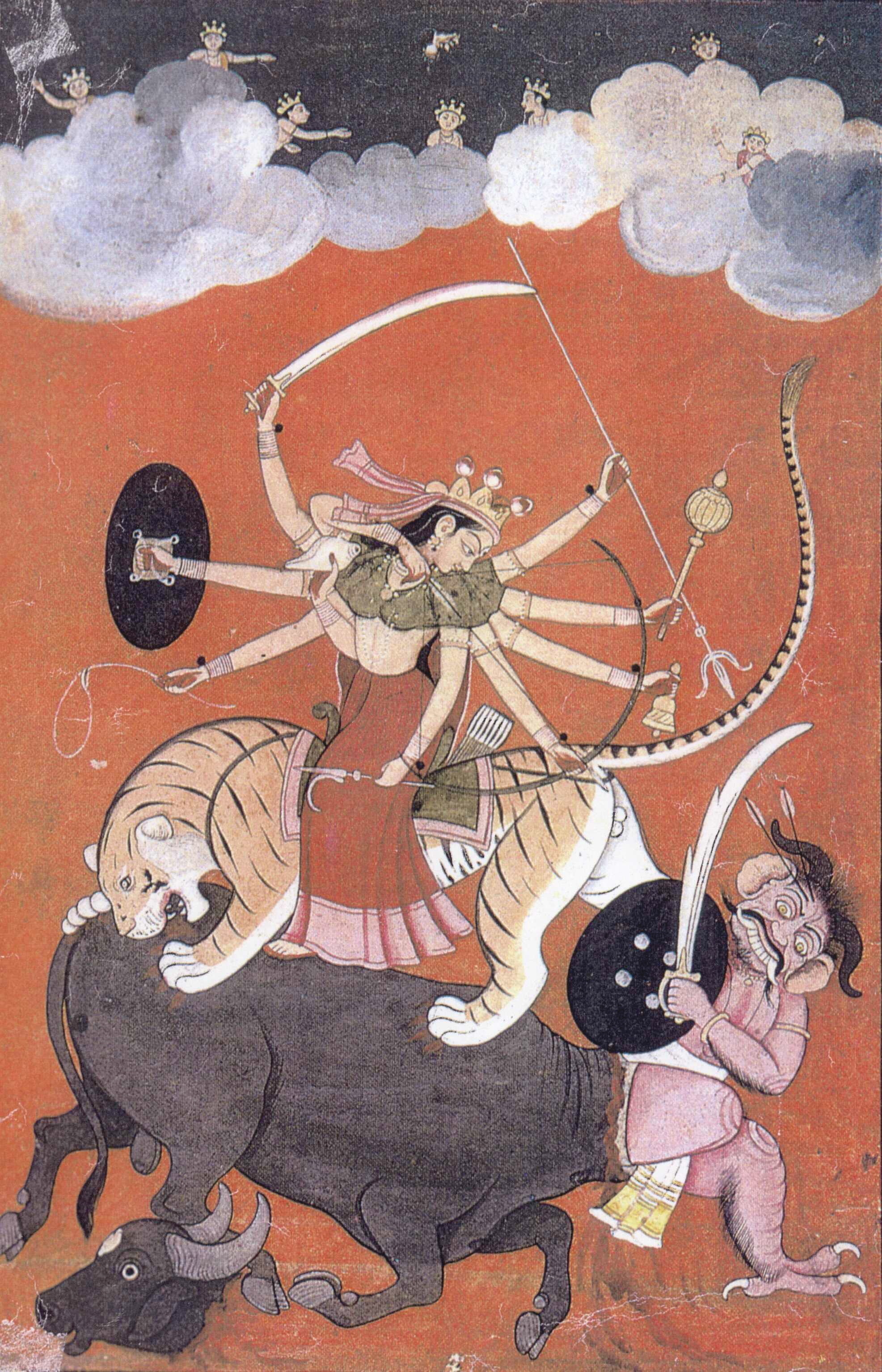 Goddess Durga, fighting Mahishasura, the buffalo-demon (Hindu Mythology) . In the clouds the Devas, celestial beings watching the event, are seen. The story is written in the Devi Mahatmya and Devi Bhagavata and is the background of the Durgapuja, the annual Hindu festival in autumn.